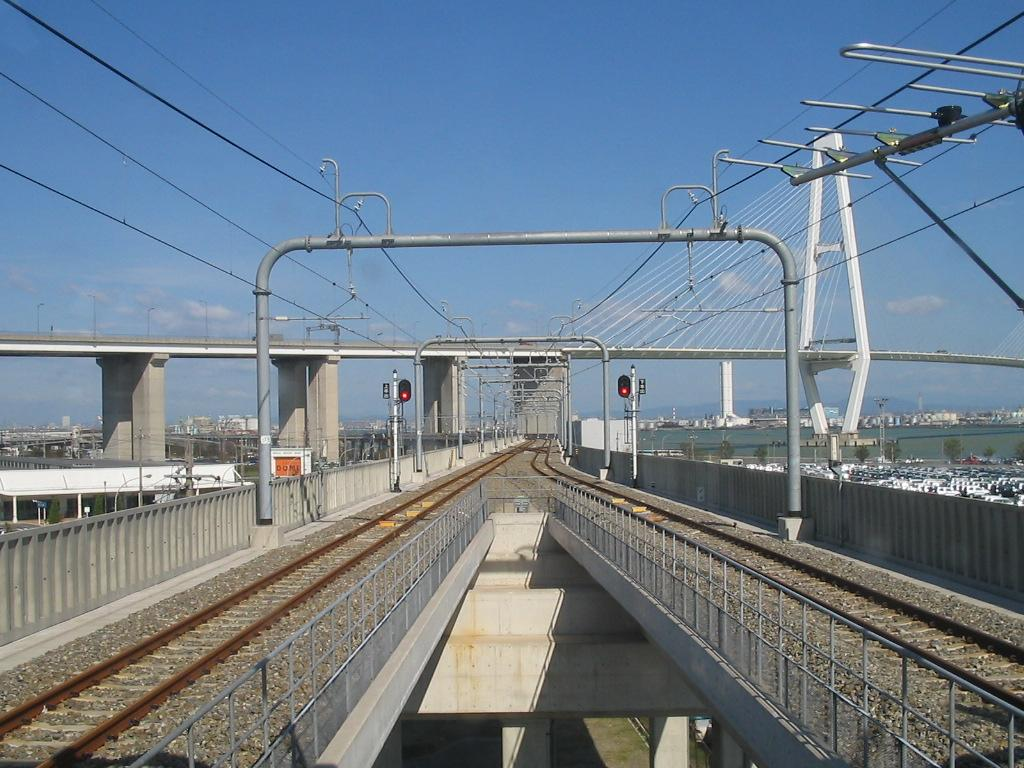 infrastructuur in Nagoya, 2004